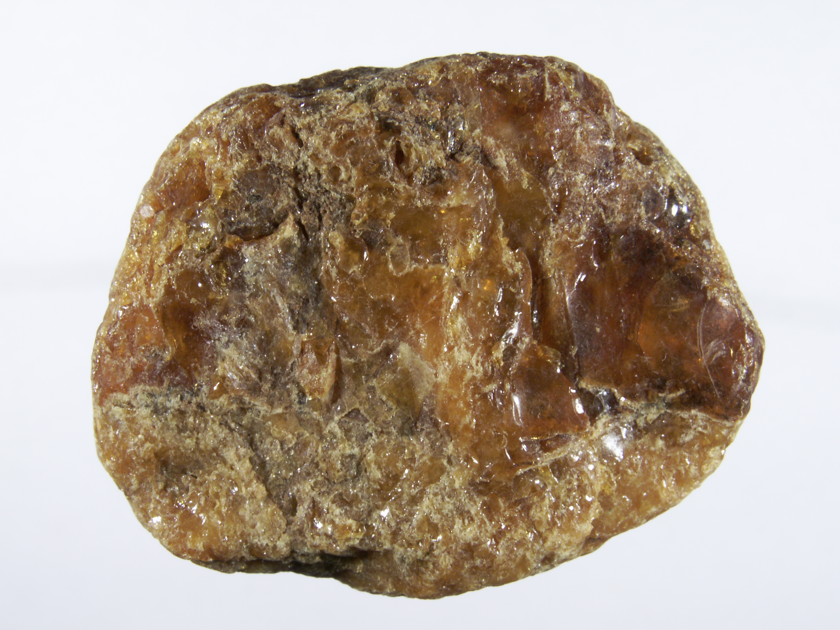 Amber from Bitterfeld, gedanite